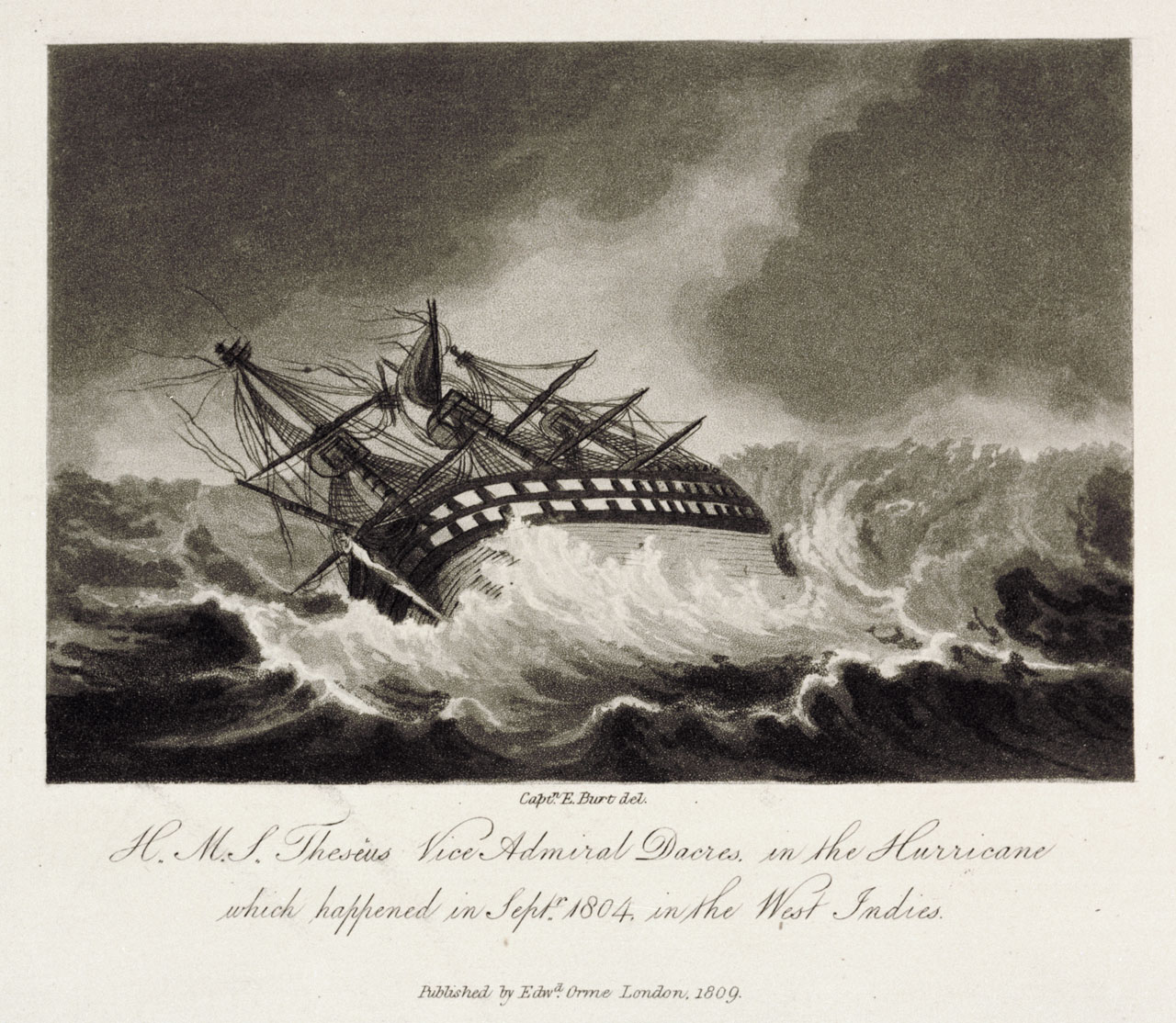 H.M.S. Theseus Vice Admiral Dacres, in the Hurricane which happened in Septr 1804, in the West Indies. Plate 1. One of four plates showing the 74-gun HMS Theseus caught in a hurricane off San Domingo between 4 and 11 September 1804. HMS Theseus and HMS Hercule were badly damaged in the hurricane, but eventually survived to reach Port Royal on 15 September.